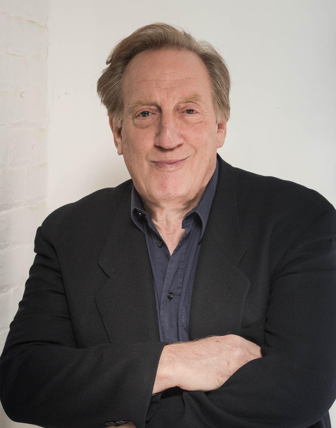 head shot Zweibel